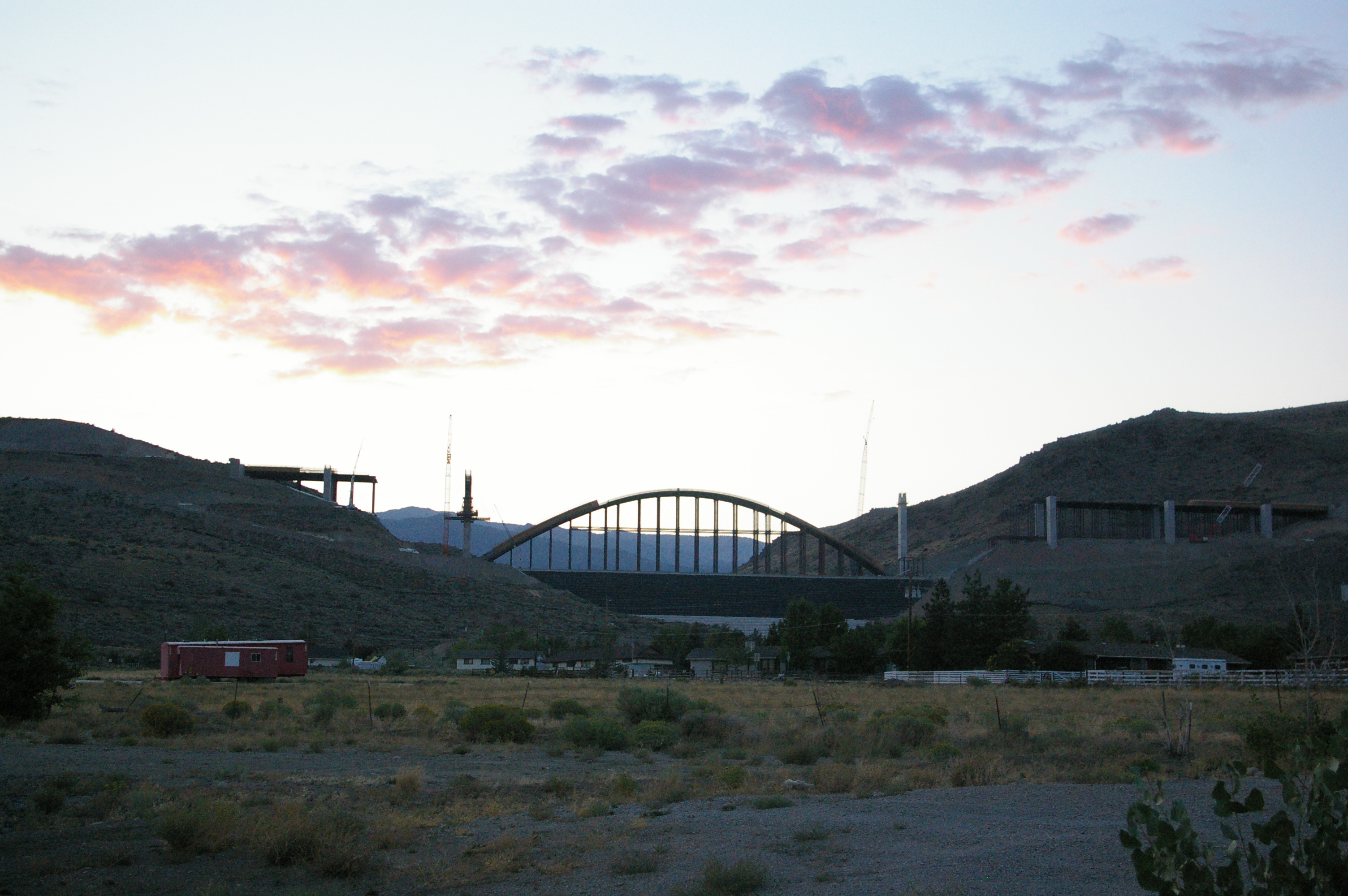 Falsework for the construction of the Galena Creek Bridge on Interstate 580 south of Reno, Nevada.